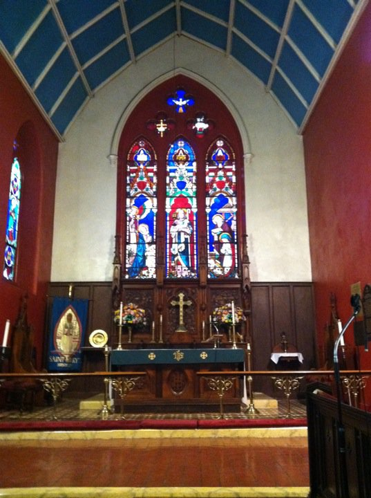 The High Altar of St. Mary's Episcopal Church, located at 230 Classon Avenue in Brooklyn, NY.